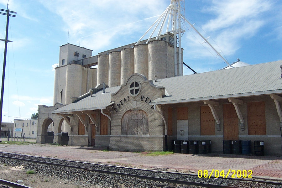 Abandoned Atchison, Topeka and Santa Fe Railroad train station and grain elevator in Great Bend, Kansas.